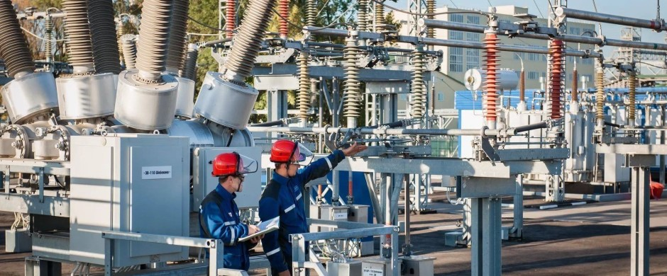 Electricalengeenering